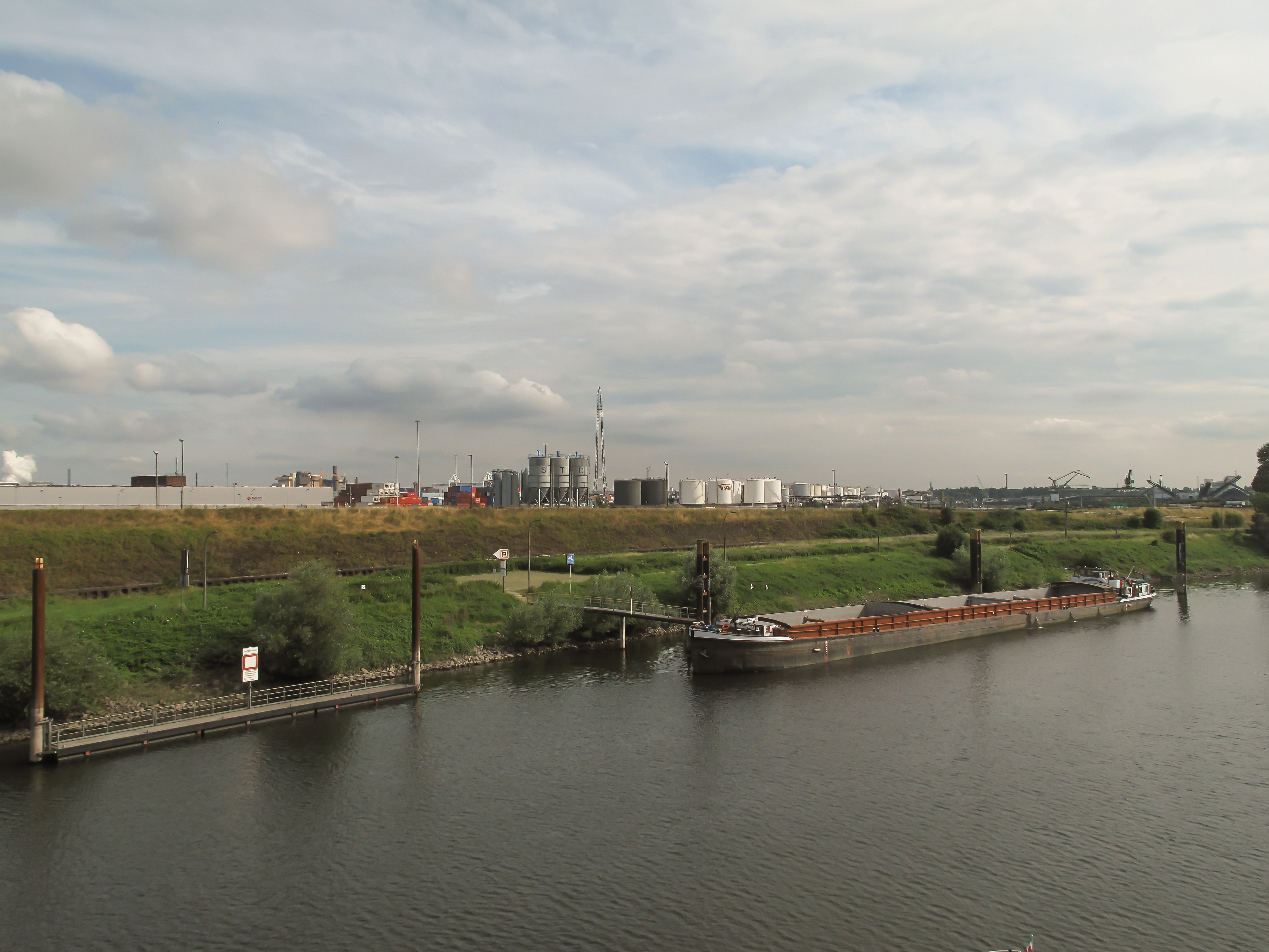 Kasslerfeld, river (Ruhr) aind industry in Hafenkanal